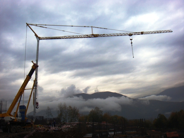 POTAIN cranes at the Olympic Village “Mountain Carousel” in Sochi.